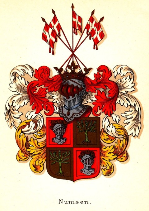 Coat of arms of the (von) Numsen family